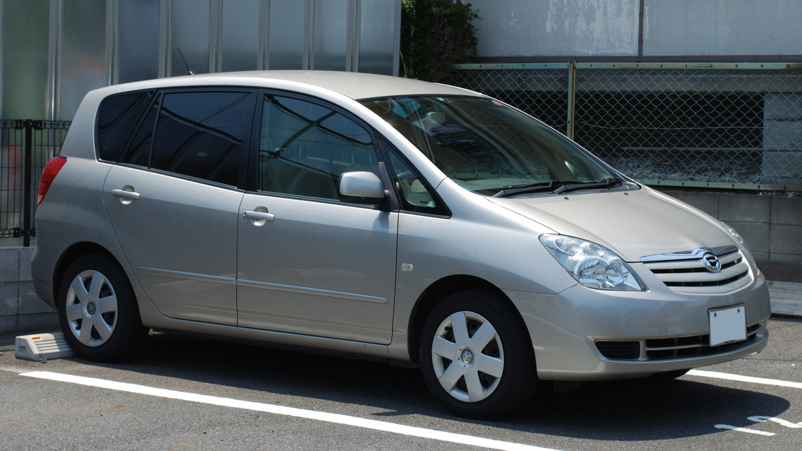 2003-2007 Toyota Corolla Spacio